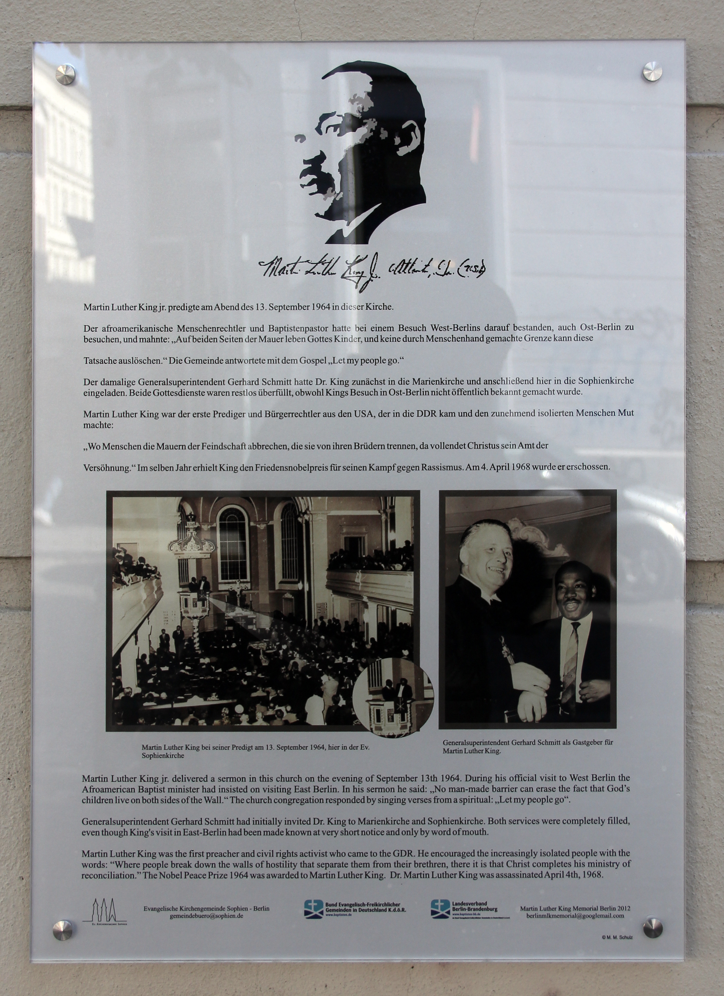 Memorial plaque, Martin Luther King, Große Hamburger Straße 31, Berlin-Mitte, Germany